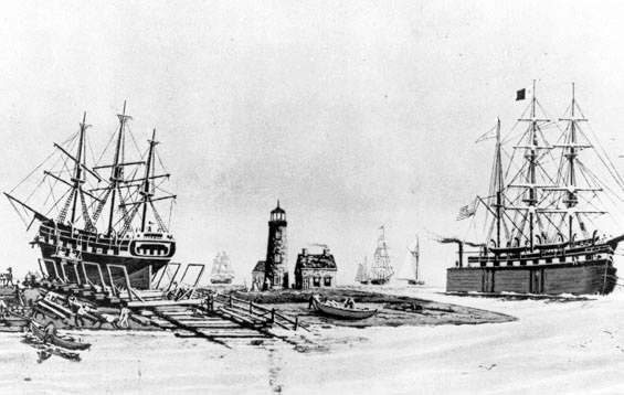 Brant Point Lighthouse early version, Nantucket, MA USA